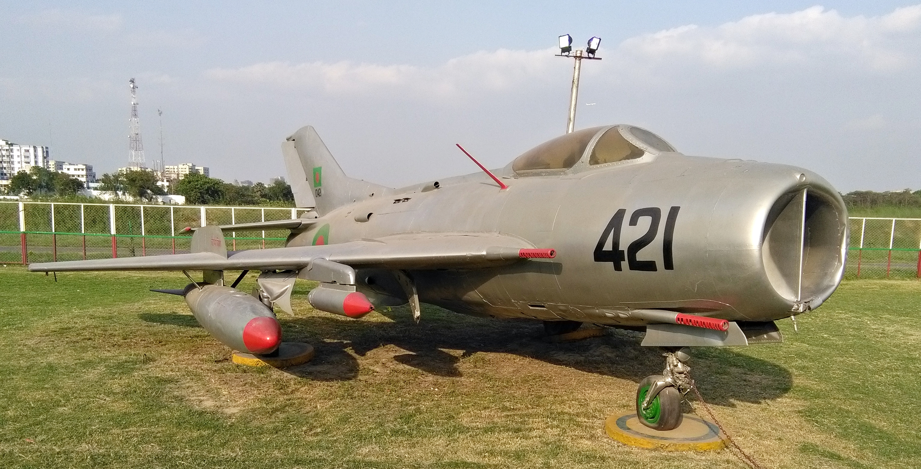 BAF Museum, Dhaka